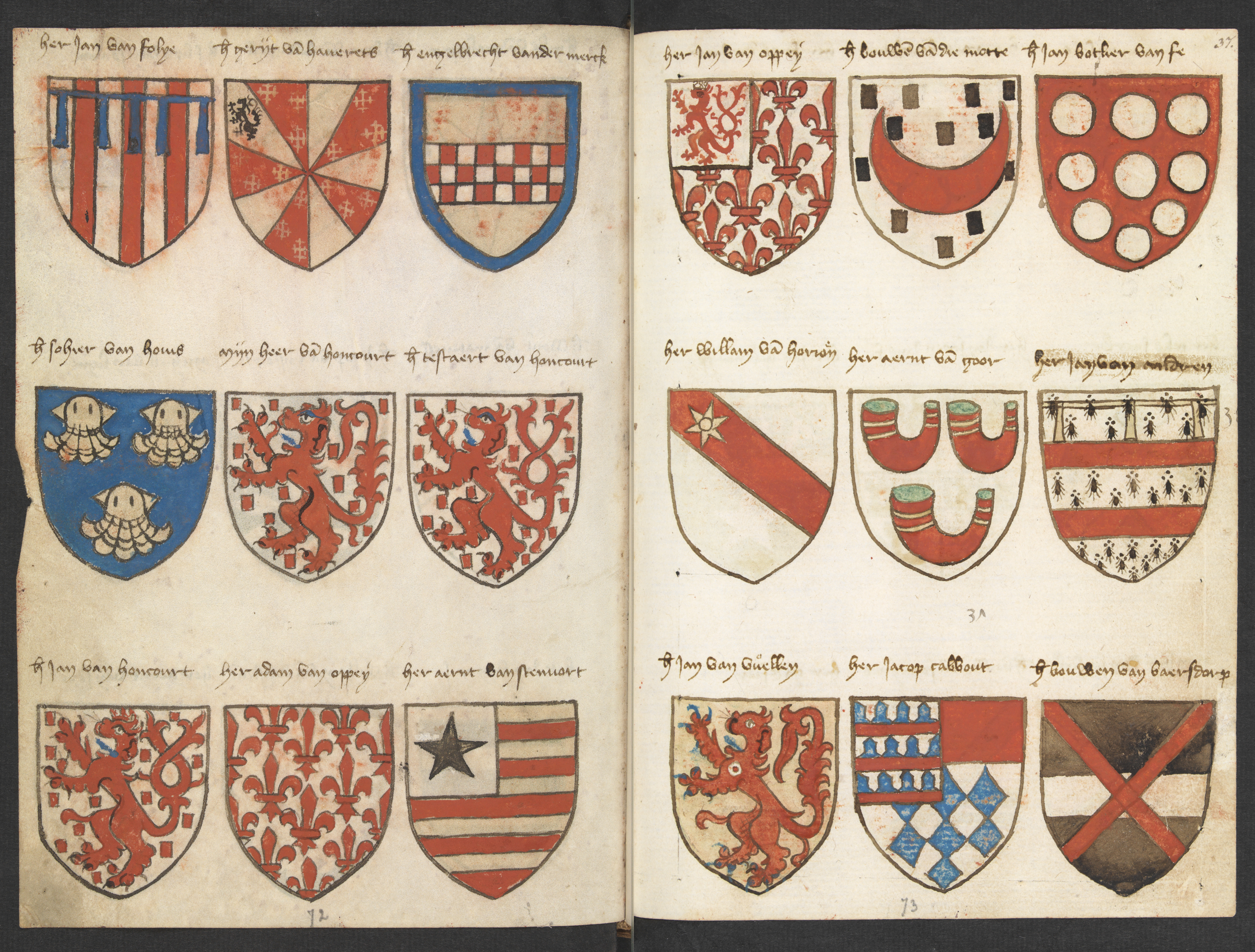 Lefthand side folio 036v; righthand side folio 037r from the Beyeren armorial / Wapenboek Beyeren